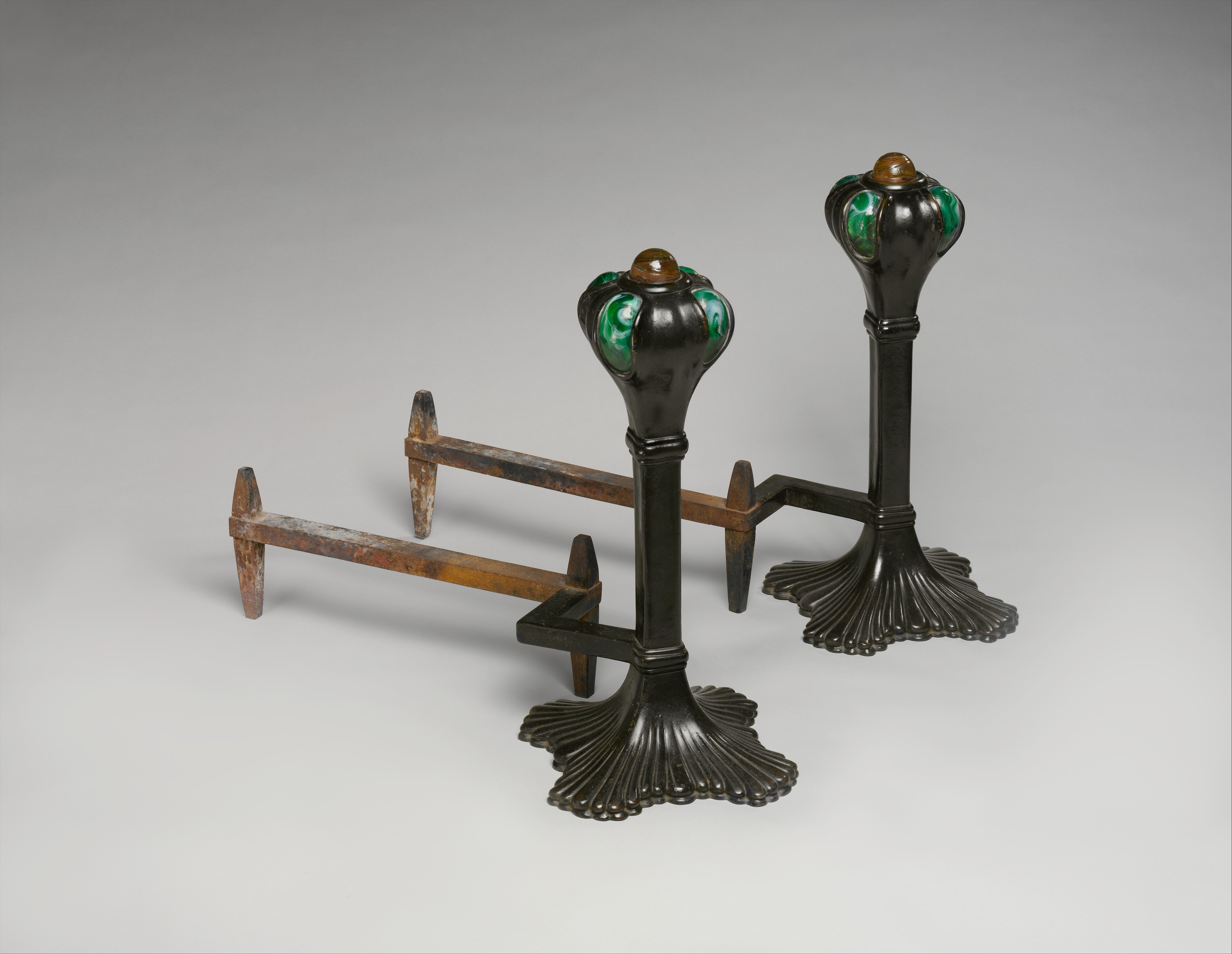 American; Andiron; Metal